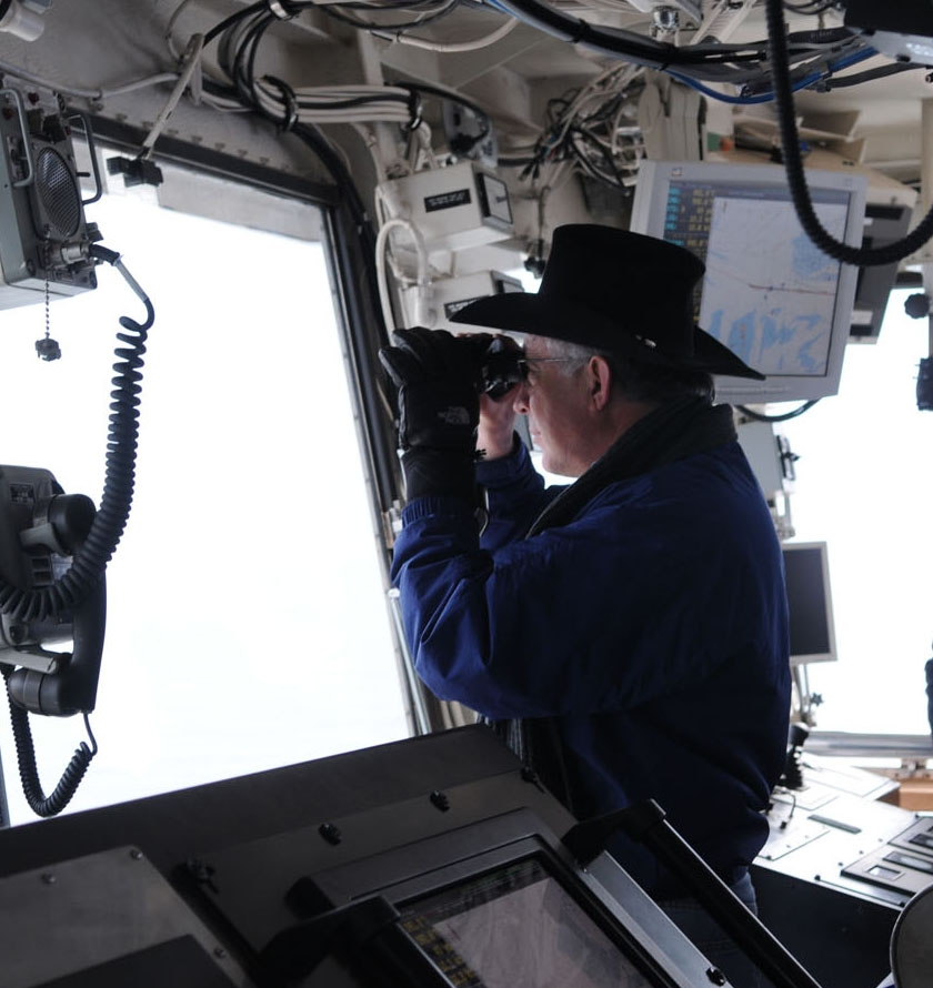 Secretary Salazar looks out at Nantucket Sound from the bridge of the Coast Guard Cutter Ida Lewis.